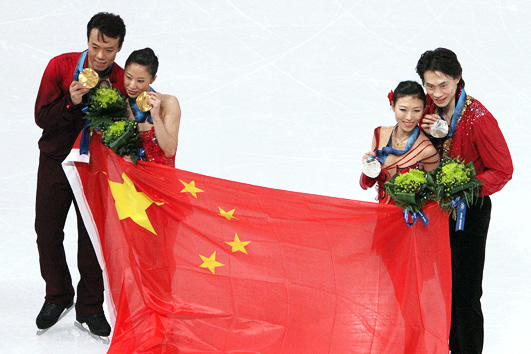 Shen Xue/Zhao Hongbo and Tong Jian/Pang Qing at the 2010 Winter Olympics.